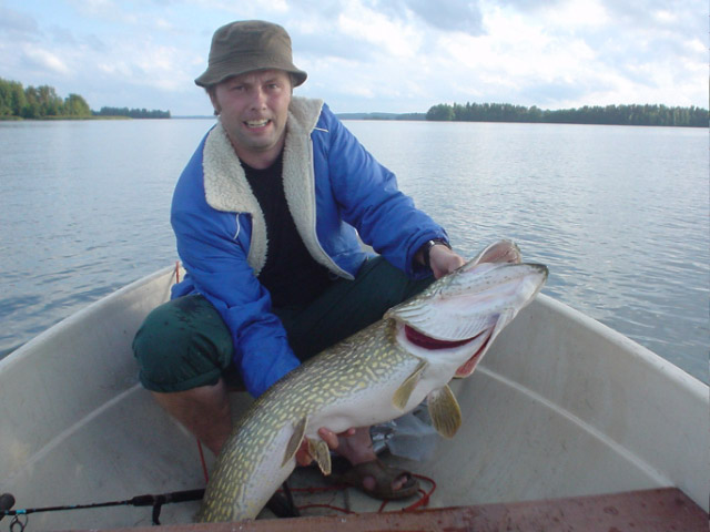 A man with a northern pike (Esox lucius) in a boat in Ritvala (possibly in Valkeakoski), Finland.